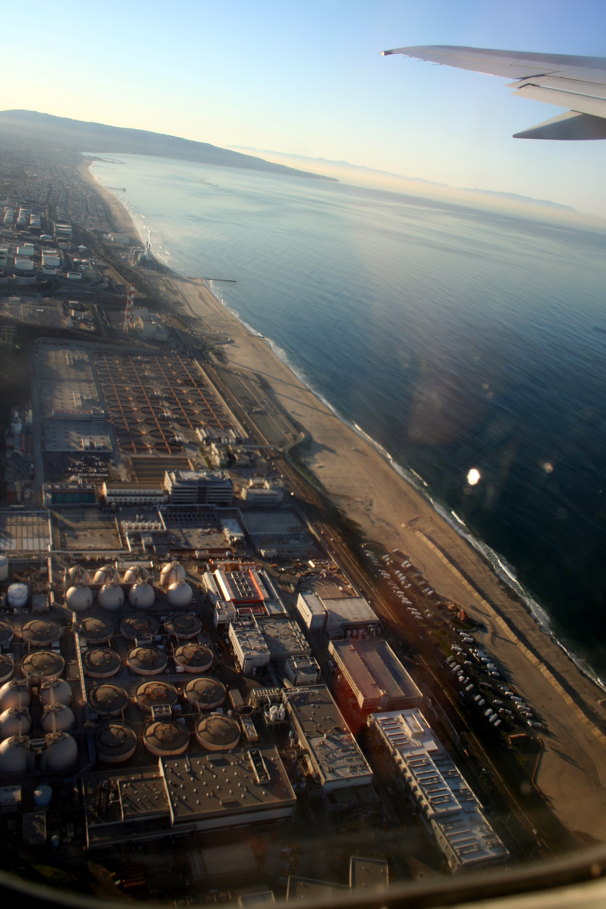 The Hyperion Wastewater Treatment Plant and South Bay from the air - Southern California. Located on the coast of Santa Monica Bay in western Los Angeles, California].